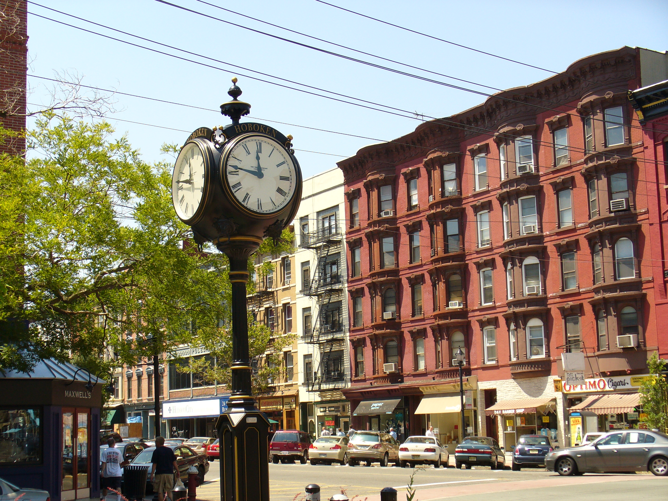 Hoboken